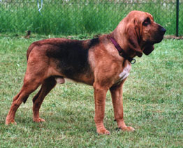 Bloodhound